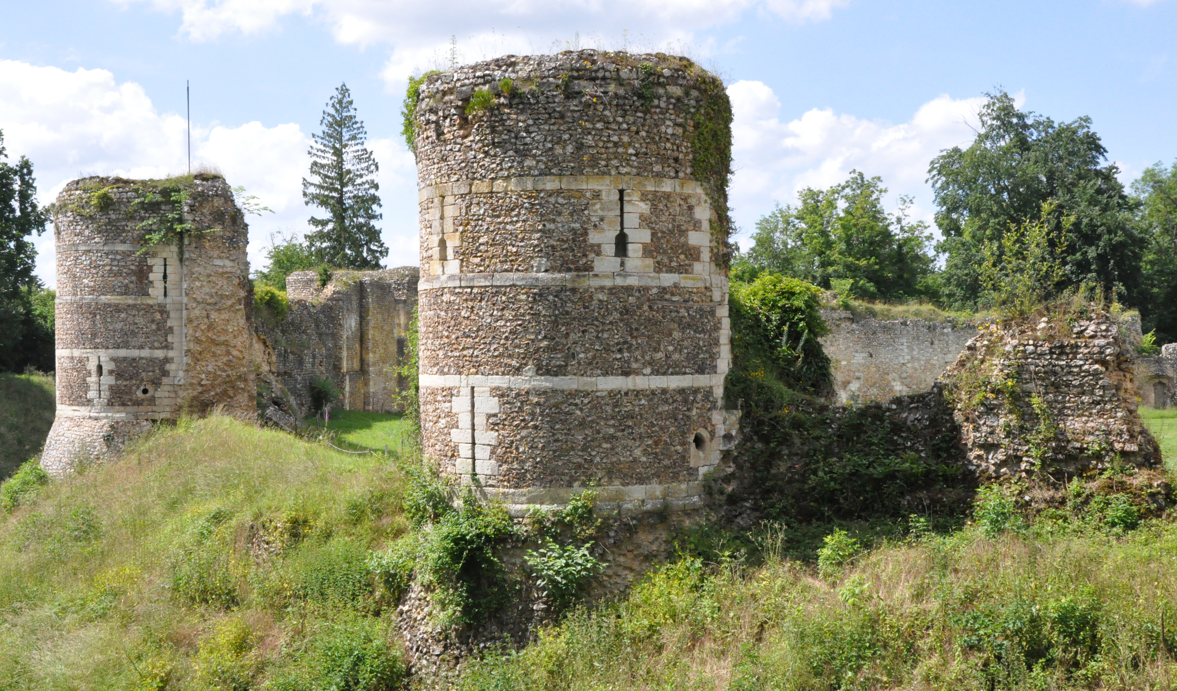 Ruins of castle of Harcourt (France, Normandy)